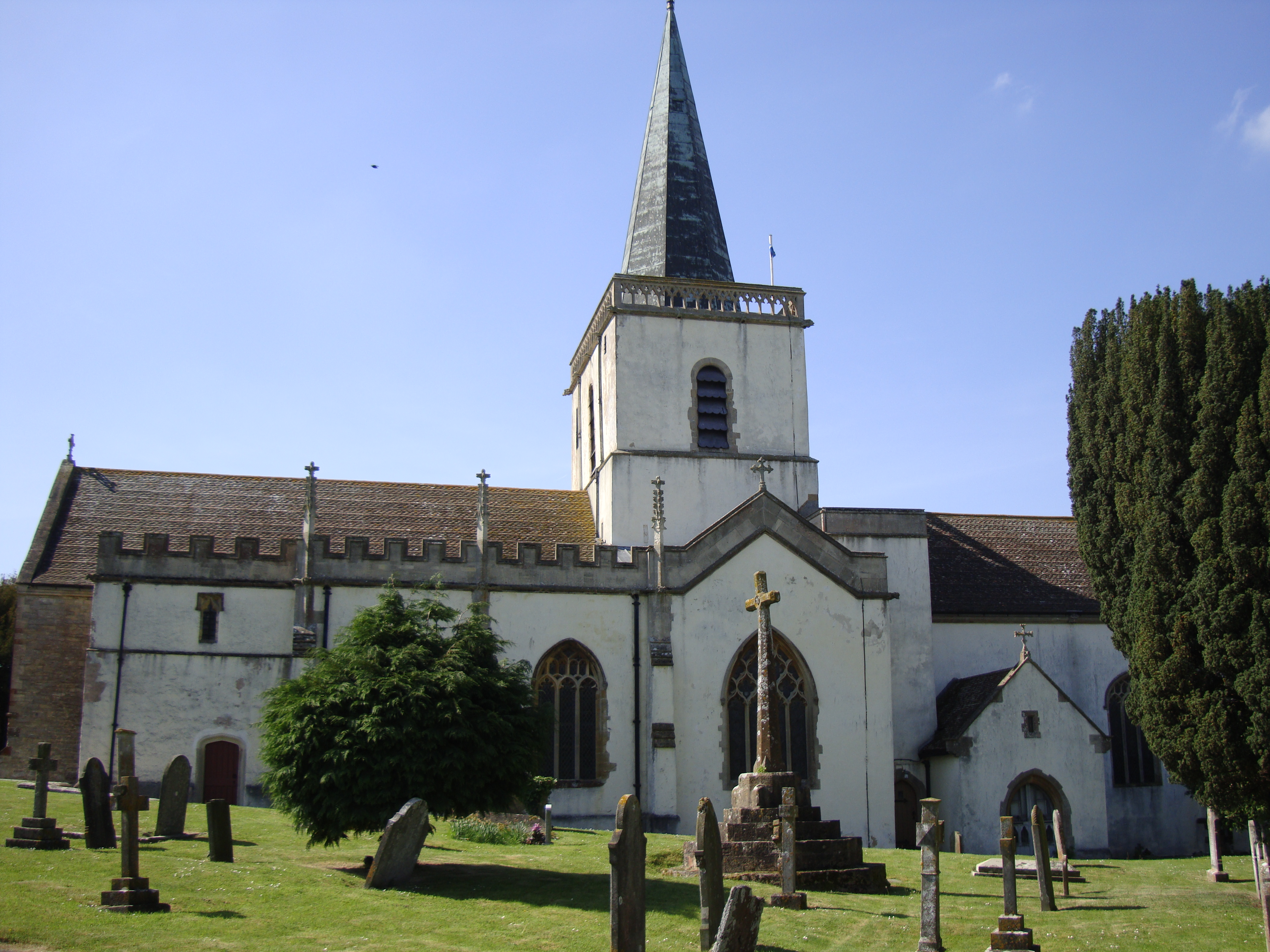 Photograph of Stogursey Priory, Somerset, England